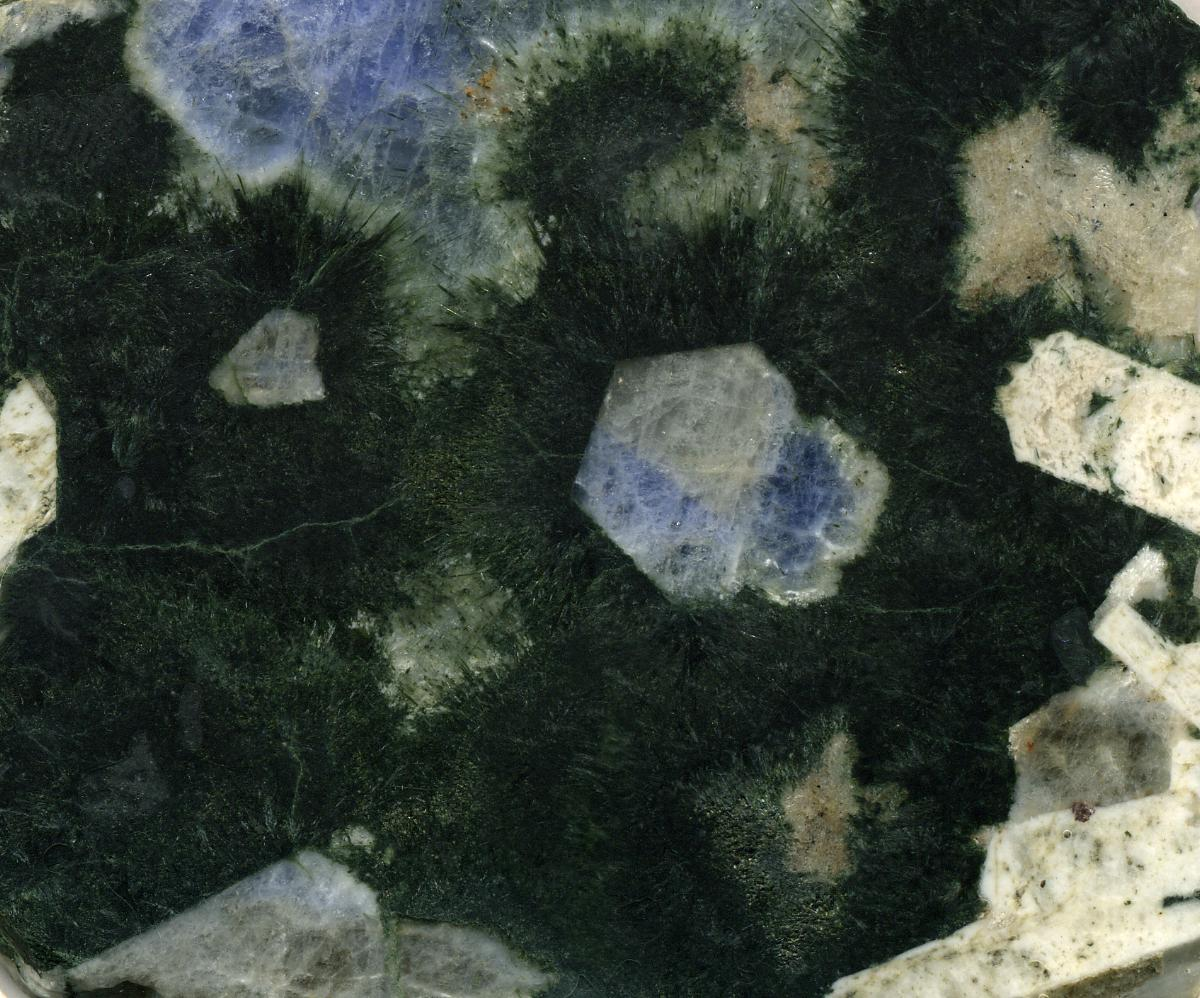 Sodalite-aegirine-albite pegmatite (field of view ~7.1 cm across) from the Ice River Complex of British Columbia, Canada. Blue = sodalite Very dark green = aegirine pyroxene Whitish = albite/sodium plagioclase feldspar Here’s an unusual rock that represents a cavity-filling in a pegmatitic syenite. The syenite host rock is dominated by large, whitish albite crystals (= sodium plagioclase feldspar, NaAlSi3O8) (see left & right edges of photo). The cavity fill has nice, large, bluish sodalite crystals (= sodium chloro-aluminosilicate, Na8(AlSiO4)6Cl2)). Surrounding each sodalite is a radiating spray of very dark green needles of aegirine pyroxene (= sodium iron silicate, NaFeSi2O6). The rock comes from southeastern British Columbia’s Ice River Complex. The Ice River is an 18-kilometer long, 29-square kilometer, backward J-shaped alkaline igneous intrusion emplaced in Cambro-Ordovician passive-margin limestones and shales. Age: ~356 million years (Tournaisian Stage, Early Mississippian)